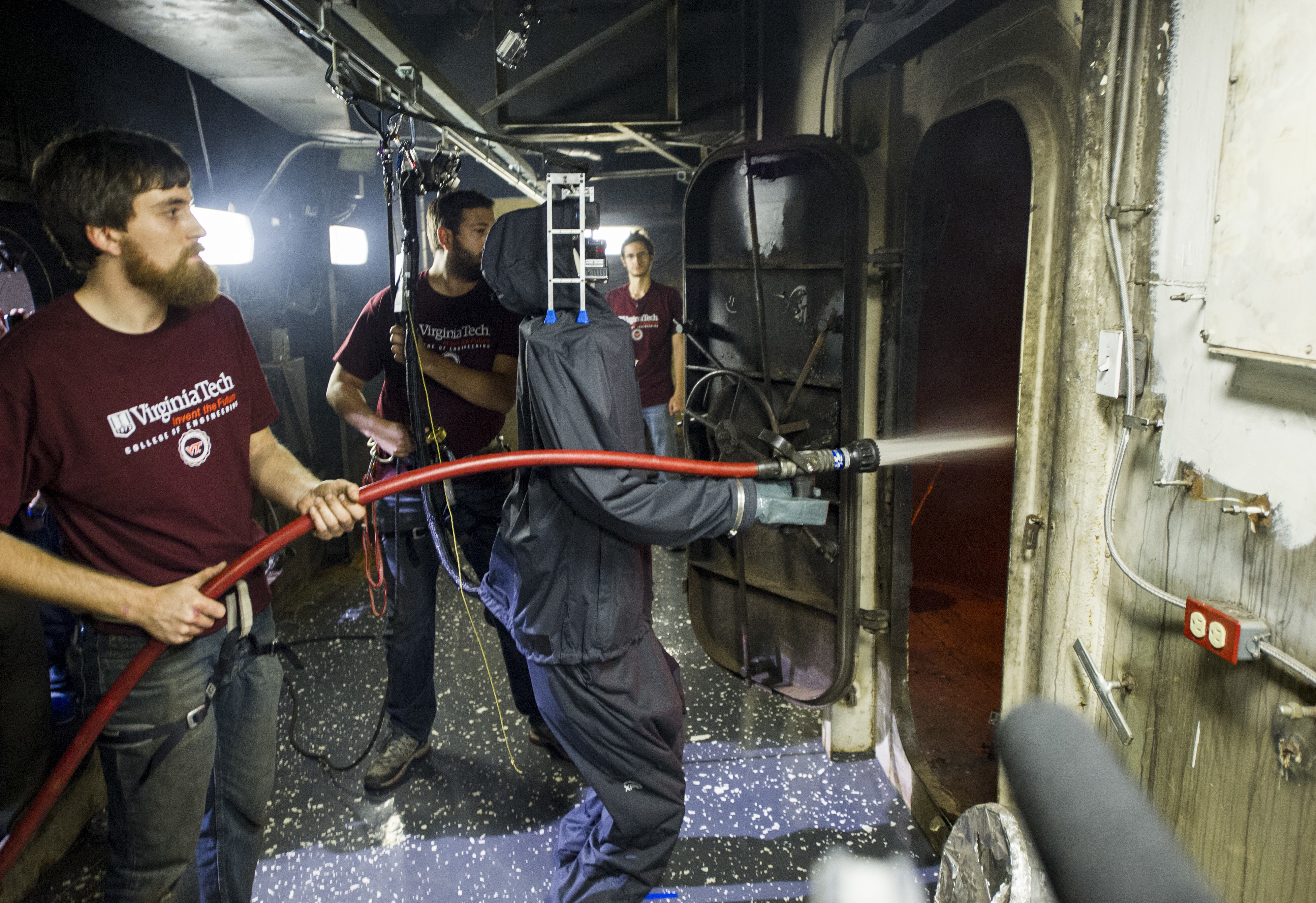 Coleman Knabe, a graduate student at Virginia Tech, assists as the Office of Naval Research-sponsored Shipboard Autonomous Firefighting Robot (SAFFiR) extinguishes a fire during testing aboard the Naval Research Laboratory's ex-USS Shadwell located in Mobile, Ala. SAFFiR is a bipedal humanoid robot being developed to assist Sailors with damage control and inspection operations aboard naval vessels. (U.S. Navy photo by John F. Williams/Released)